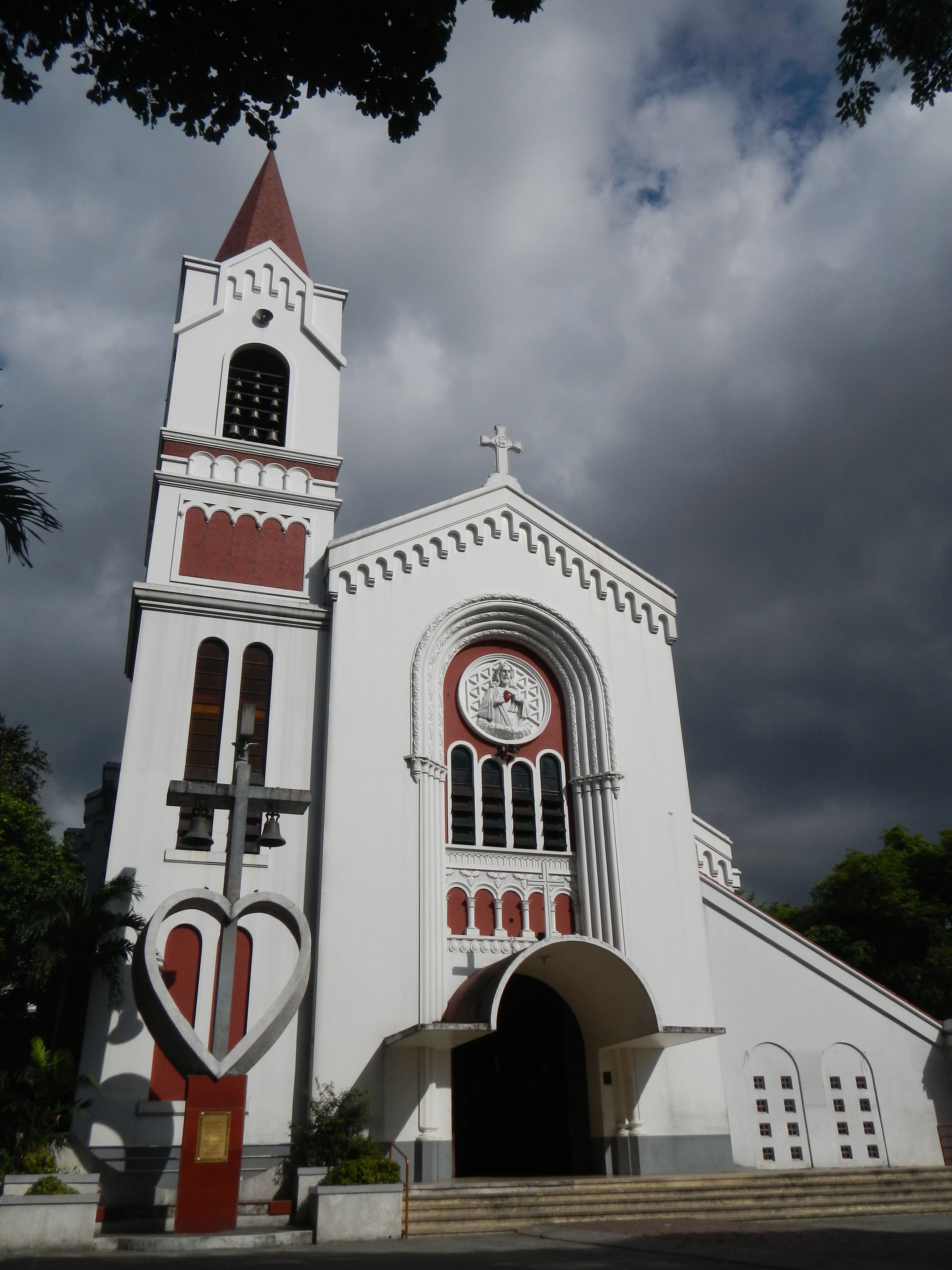 1941 Sacred Heart Parish Kamuning - Vicariate of the Holy Family[1]The Sacred Heart of Jesus Parish Church - Kamuning #28 Scout Ybardolaza St., Kamuning, Quezon City is a Catholic parish in the Kamuning District of Quezon City in the Philippines. It was established on October 3, 1941. The parish has been in the pastoral care and administration of the Society of the Divine Word since even before its founding. The current Parish Priest is the Very Reverend Father Jerome Marquez, SVD, who also serves as the Vice-Provincial of the Philippine Central Province of the Society of the Divine Word. His assistant priests are Father Benigno Beltran, SVD, and Father Lino Nicasio, SVD. The Sacred Heart of Jesus Parish parish center is located at the intersection of Scout Ybardolaza Street, Scout Fuentebella Street and Scout Fernandez Street. The parish is part of the Diocese of Cubao.[2] The parish belongs to the[3] Roman Catholic Diocese of Cubao (Latin: Dioecesis Cubaoensis) is a diocese of the Latin Rite of the Roman Catholic Church in the Philippines. The diocese was established on 28 August 2003, the Feast of Saint Augustine, from the Archdiocese of Manila.[4]Sacred Heart of Jesus Parish - Kamuning (Quezon City) Coordinates: 14°37'53"N 121°2'22"E